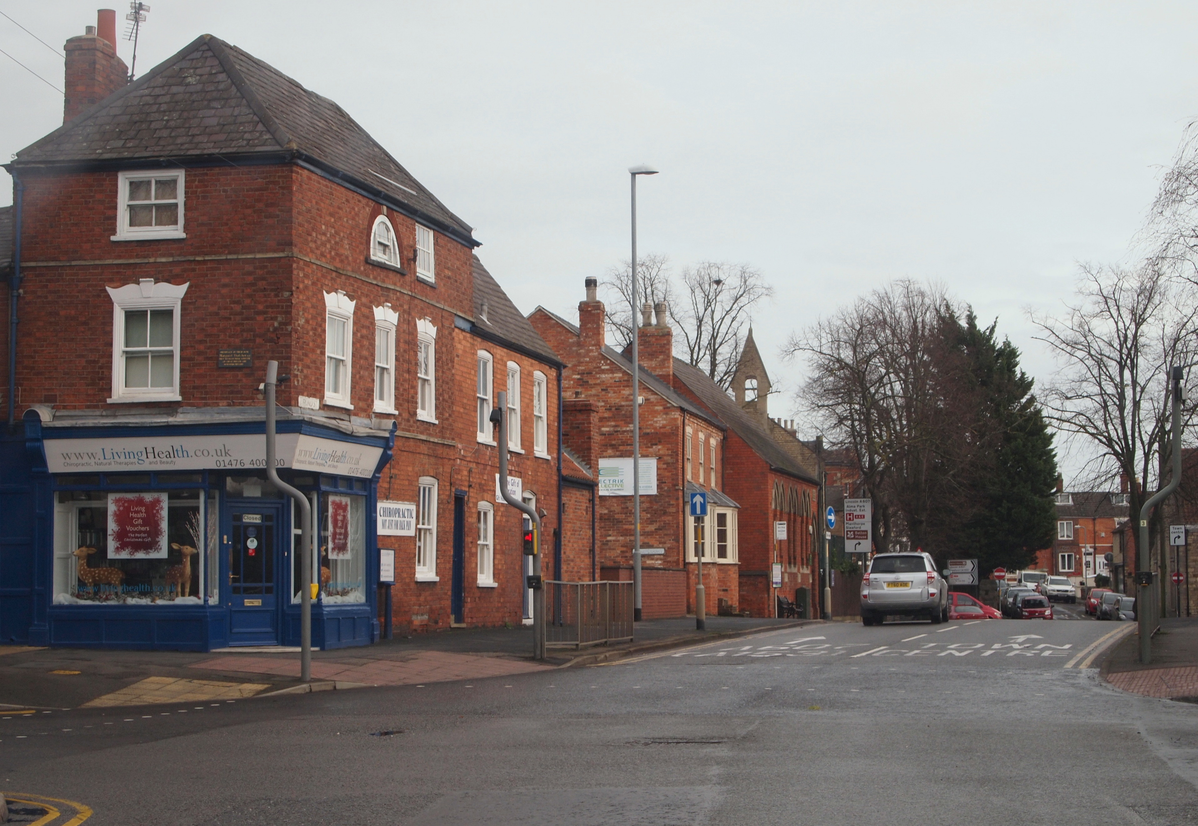 Grantham, Lincs. With Barrowby Road behind the photographer, this is the view towards the A607 opposite. To get onto the A607 users need to pass over these crossroads, i.e. the B1174 to the right and left. The "LivingHealth" shop on the left is the birthplace of Margaret Thatcher.